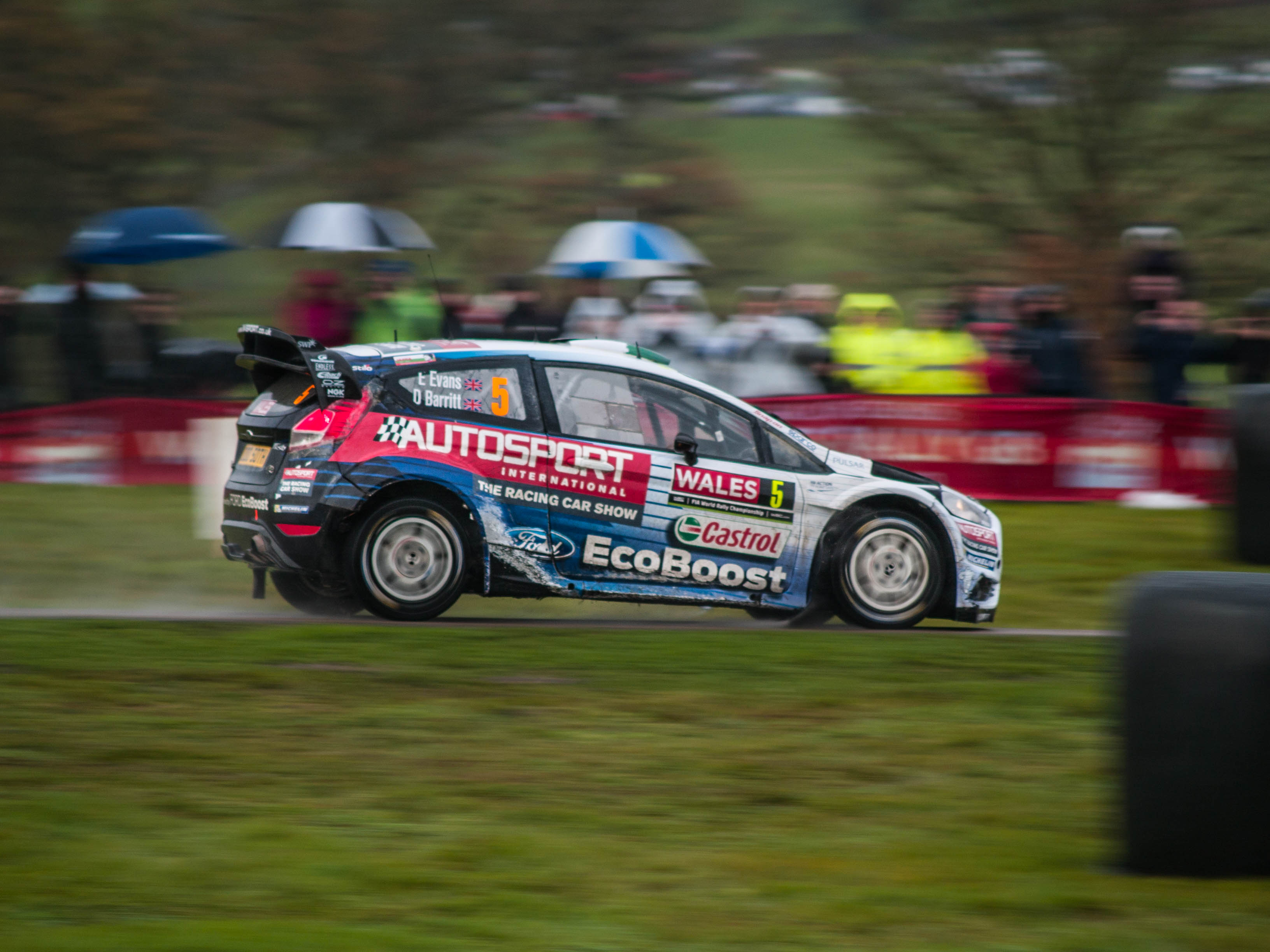 2015 Wales Rally GB Elfyn Evans